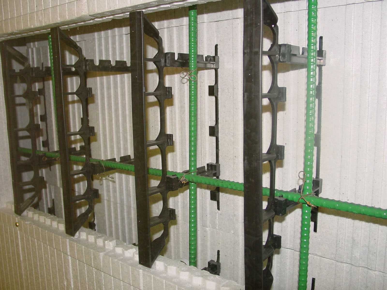 November 23, 2001, Tulsa , OK (Disaster Ally in the Eastland Mall) -- A safe room wall section is shown here. The insulated concrete form is cut away to show reinforcing steel. The cavity is filled with concrete. Photo by Kent Baxter/ FEMA News Photo